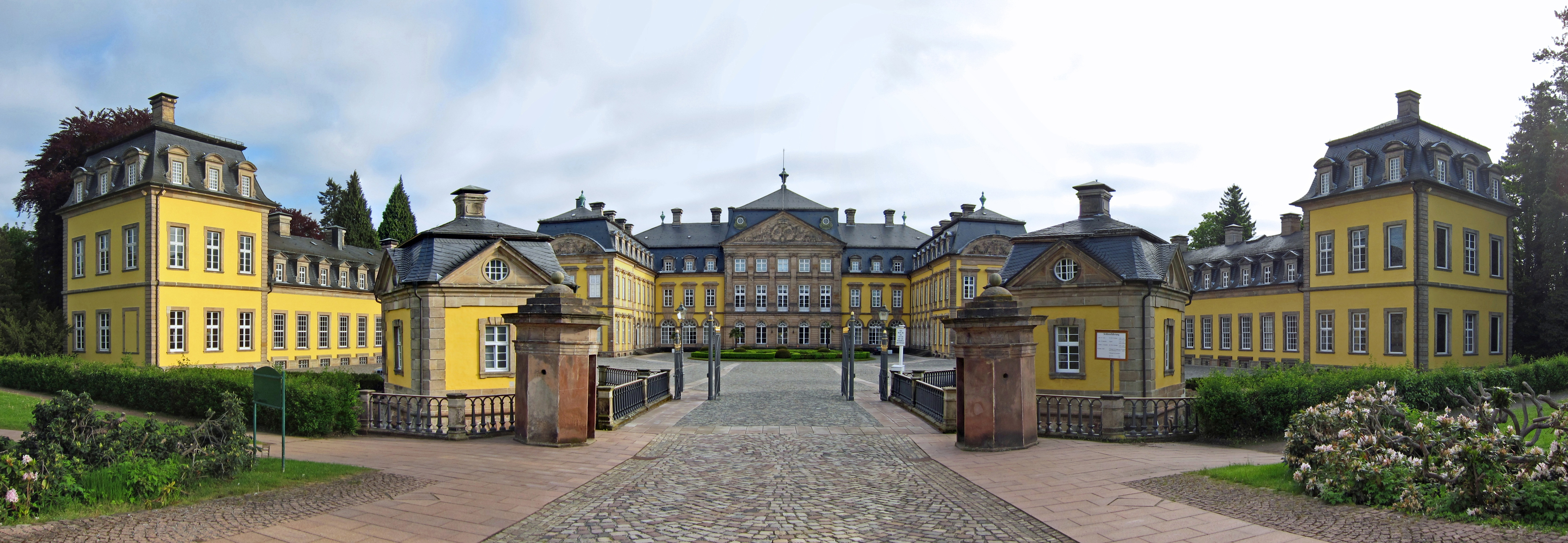 Panorama Arolsen Castle